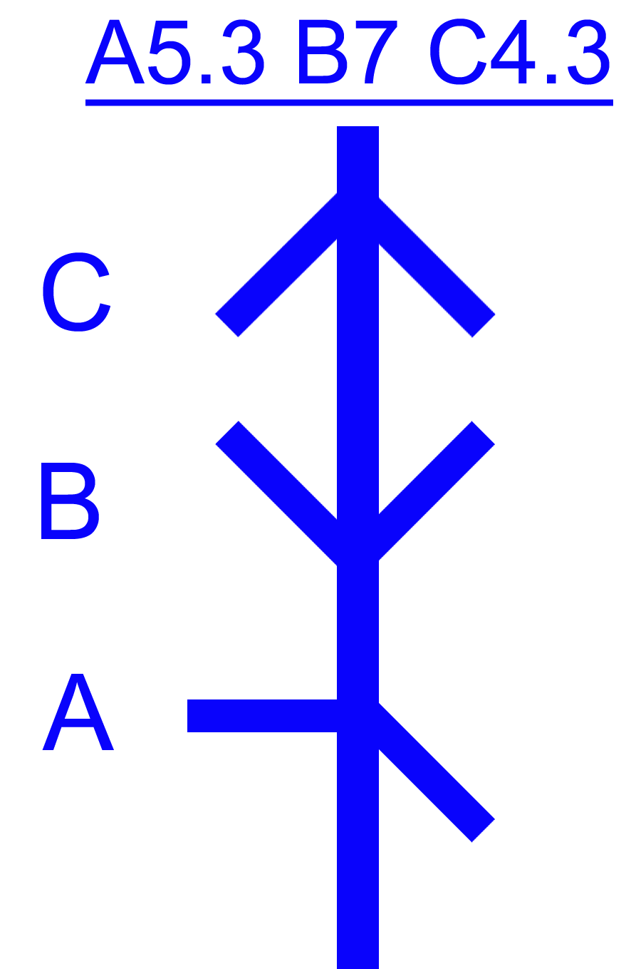 Code used by the Prussian Optical Telegraph between Berlin and Koblenz. All arms used.